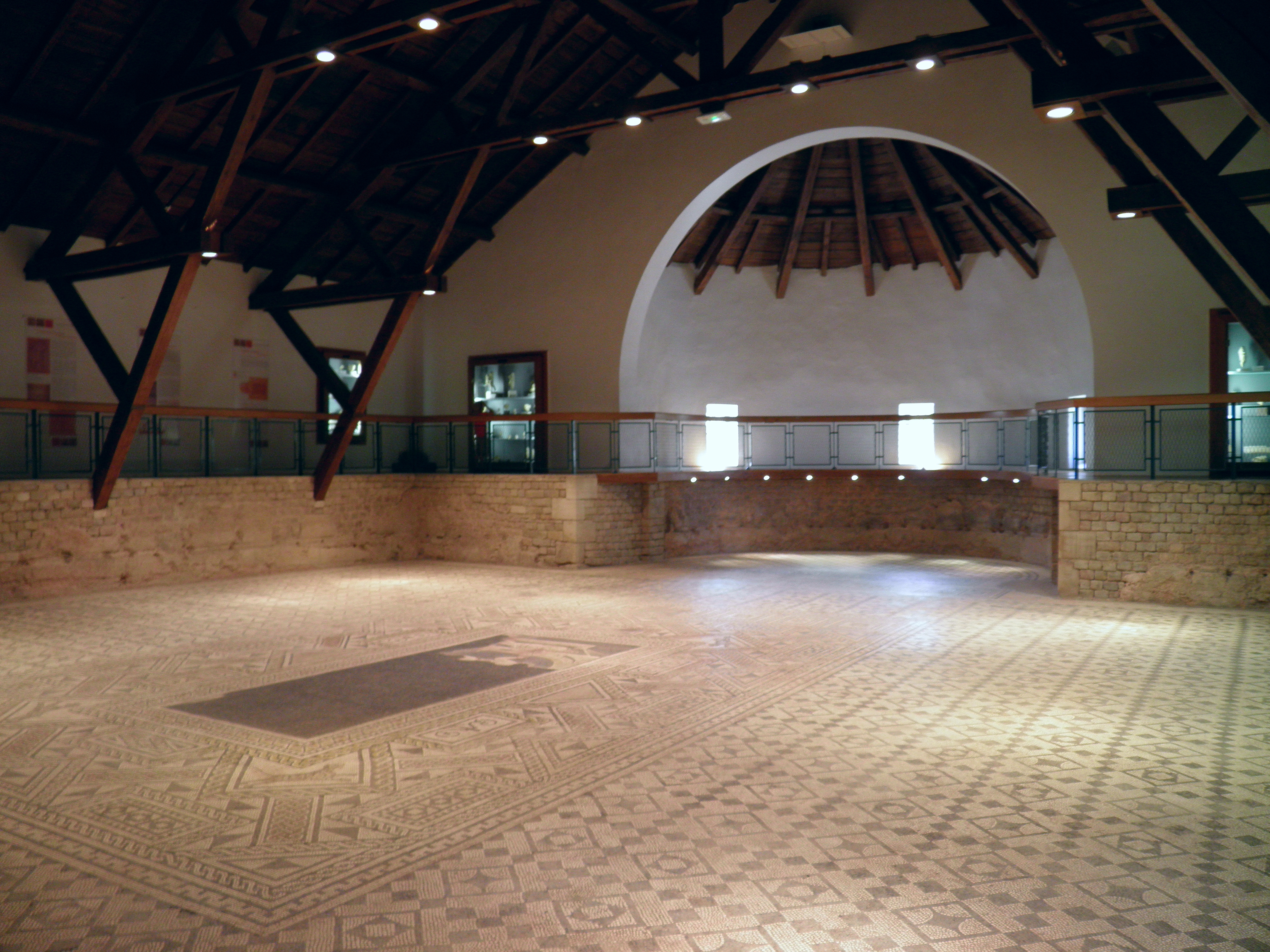 Mosaic in-situ (232 sq.m) of one of the basilica rooms, Roman Grand (Andesina), France